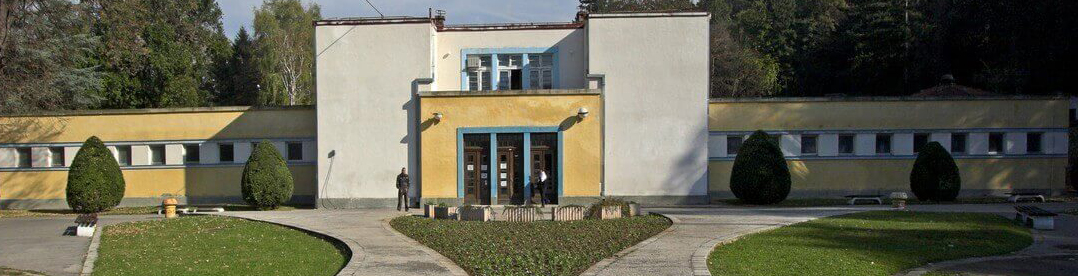 Old bathroom with pools number 3 and 4 in Niška Banja